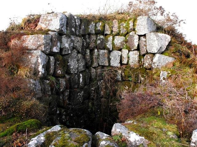 Collared in stone Masonry shaft collar at Ding Dong Mine.